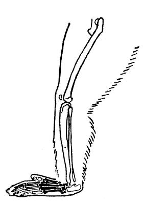 Plantigrade mammal (Papio)